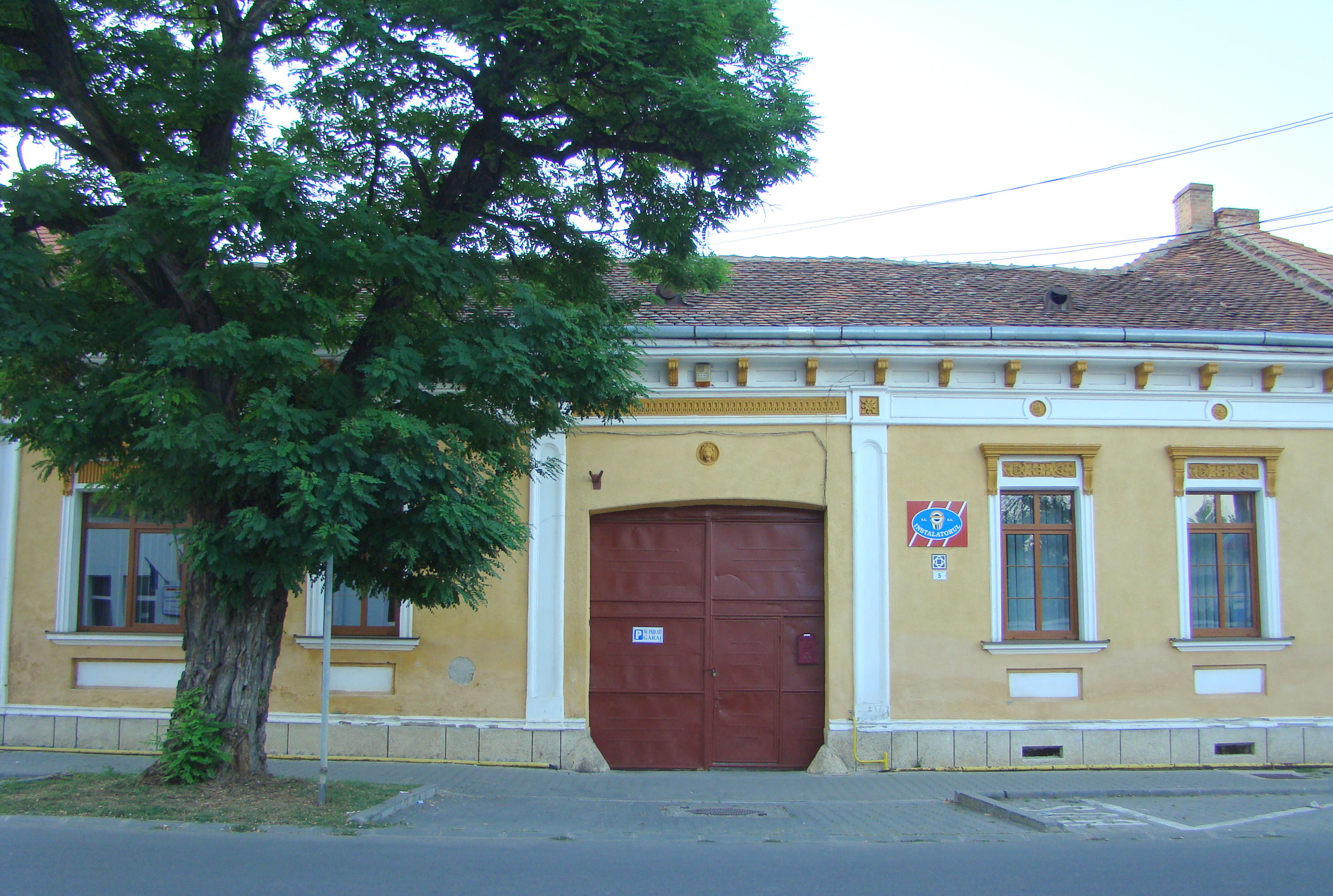 House, historic monument, Regina Maria street nr.5, Alba Iulia, Alba county, Romania